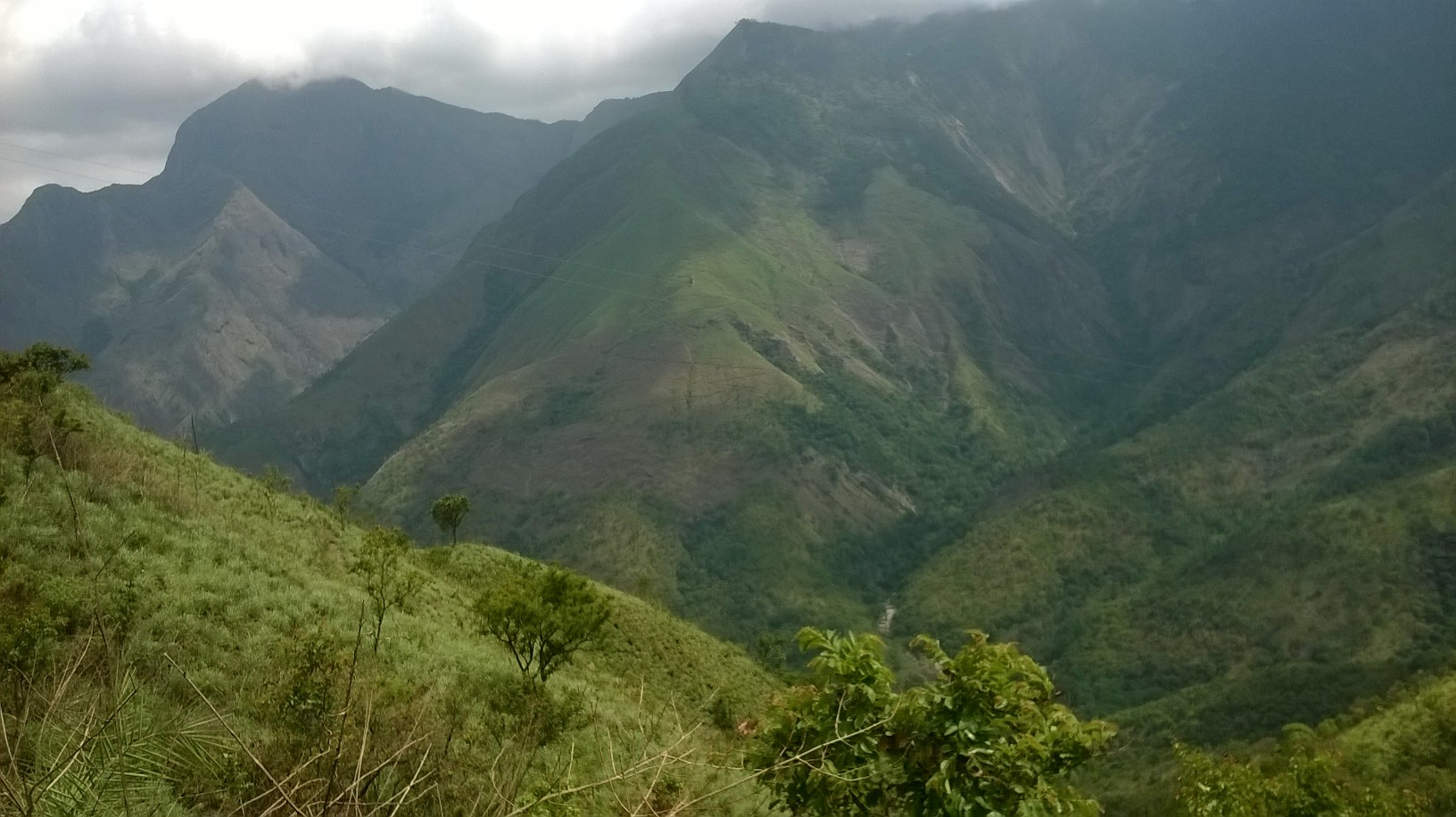 This image was taken during the trek from kurangani hills to topsation view point.